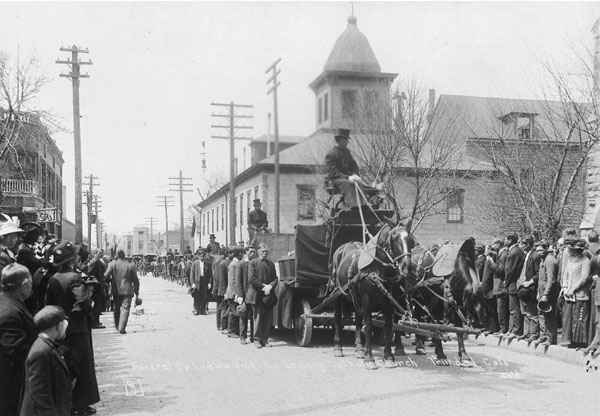 Showing coffins of victims in front of Catholic Church." A funeral for twenty one people who died when state militia attacked and burned a tent colony set up by striking coal miners